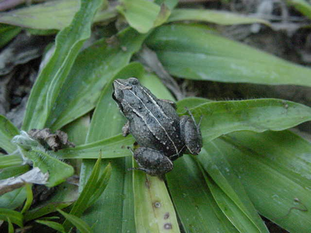 Eleutherodactylus varleyi